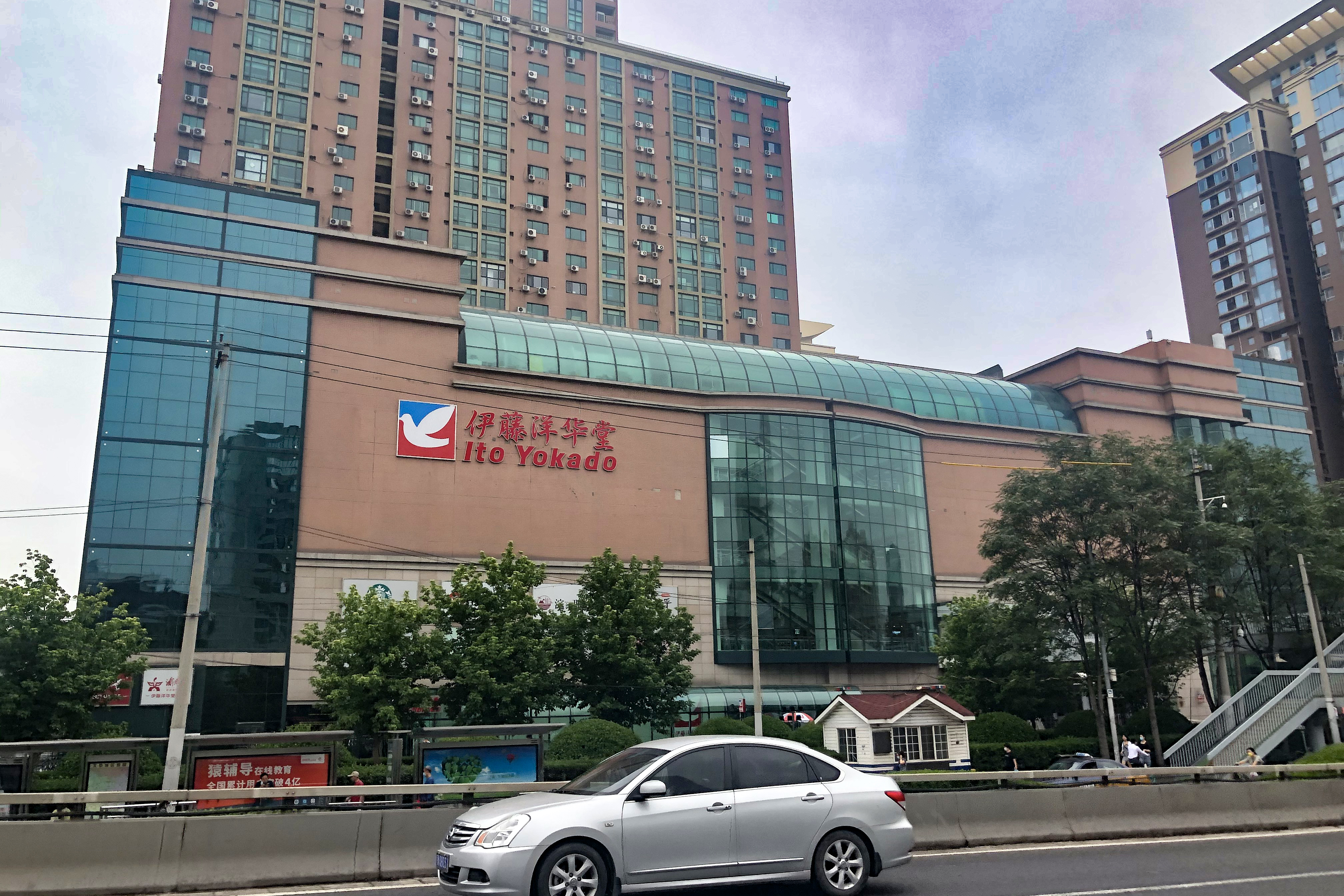 Well it's the only Ito Yokado left in Beijing, actually in Xiaoguan, near Huixinxijiebeikou Station.